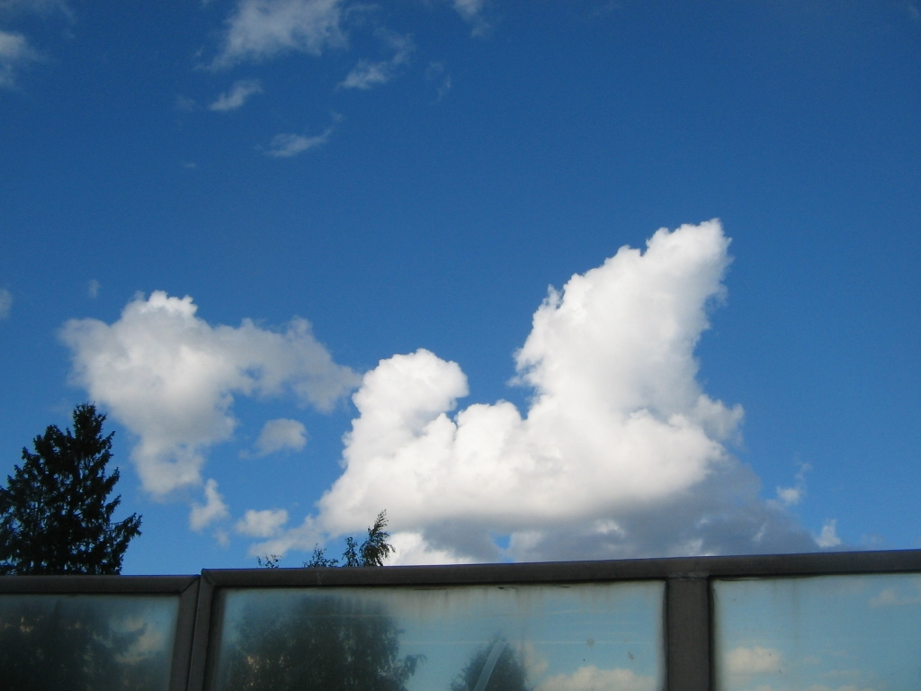 Cumulus mediocris cloud with vertical extension (castelanus).